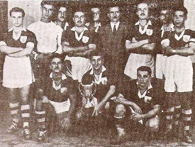 Emile Nassar in the center holding the cup. Standing from left to right: G. Bitar, Simon Khoury, Boutros Mubarak, Jospeh Abu Nader.